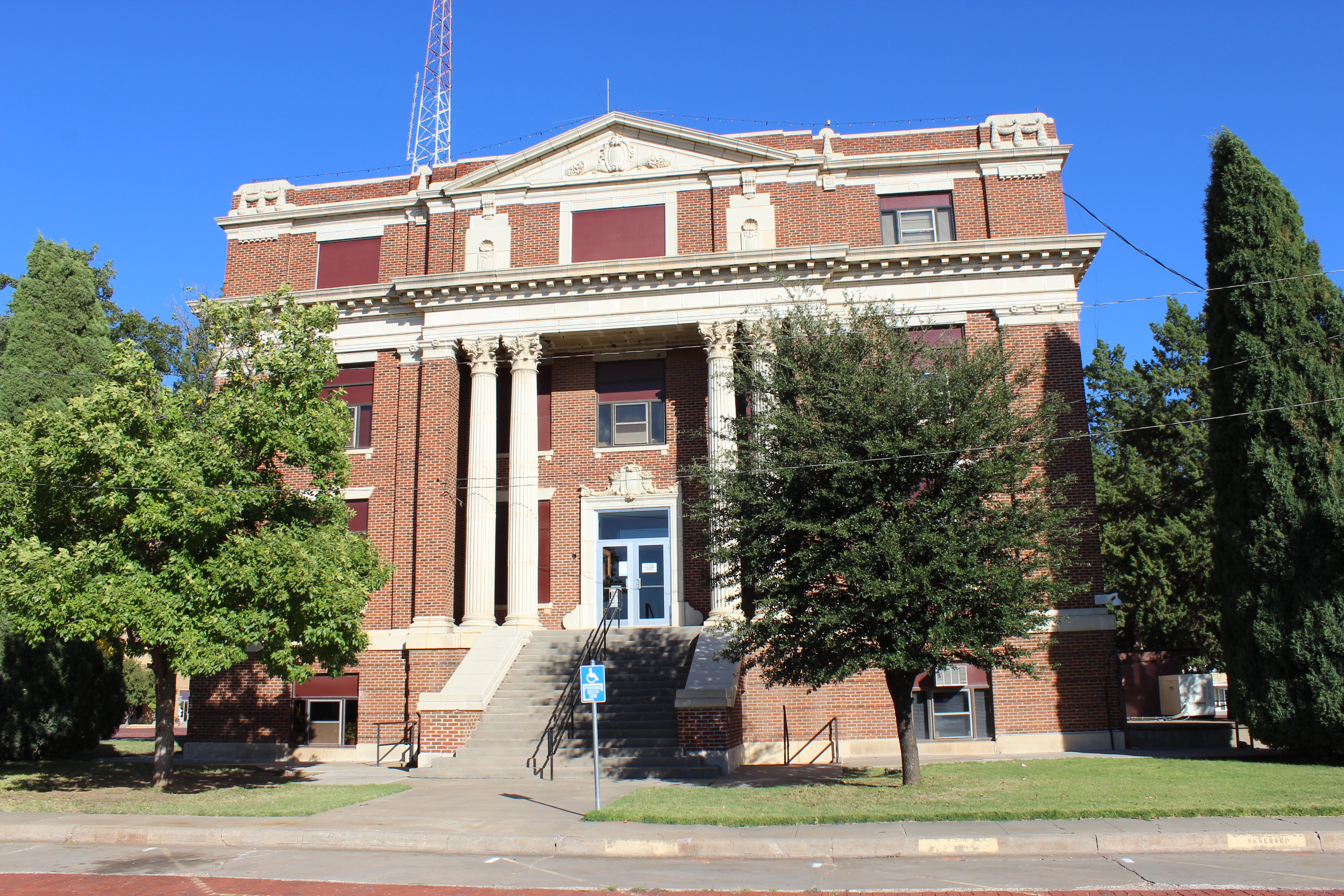 Hall County Courthouse in Memphis, TX